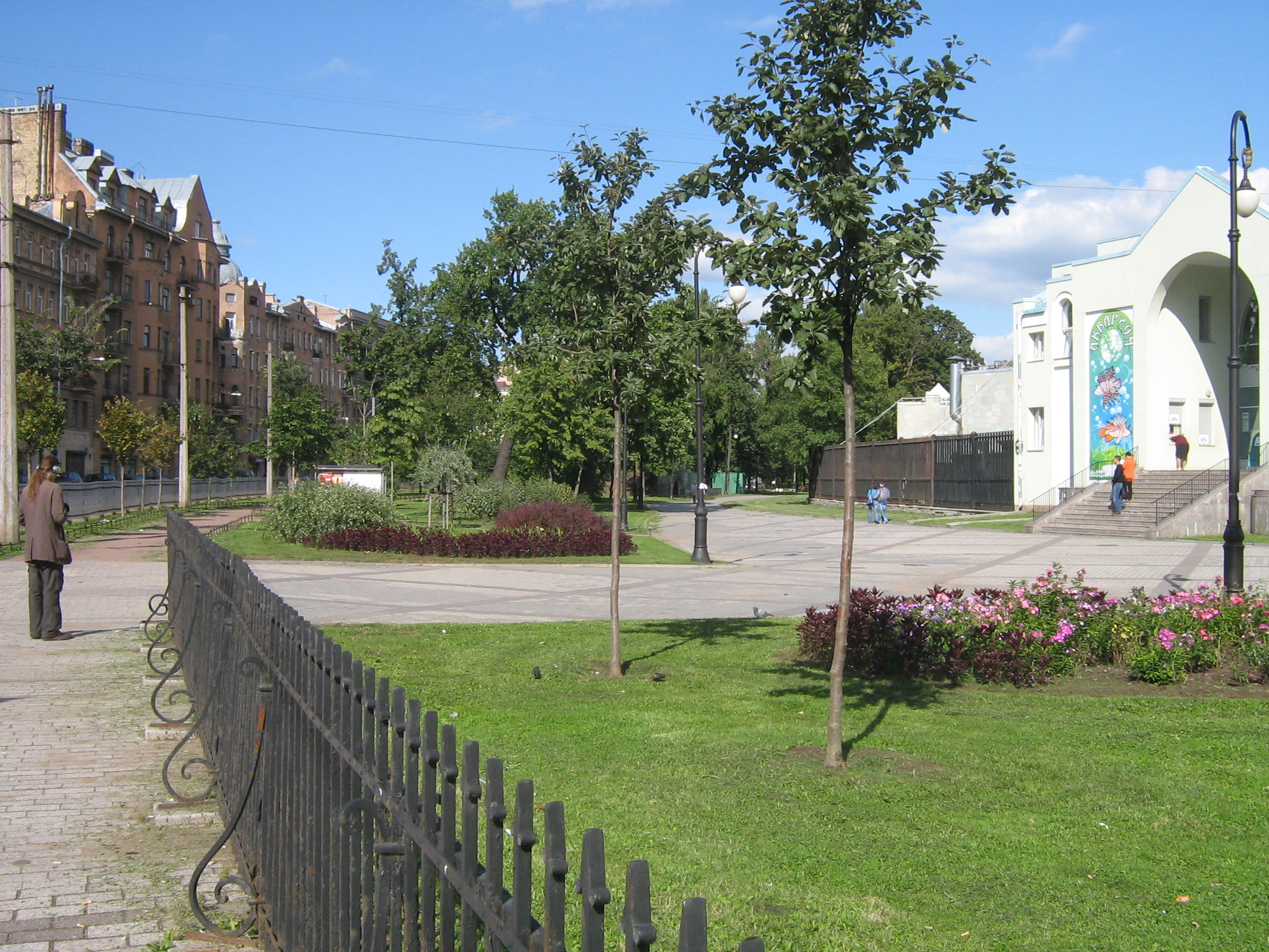 Saint Petersburg (Russia), Alexander Park. Leningrad Zoo.